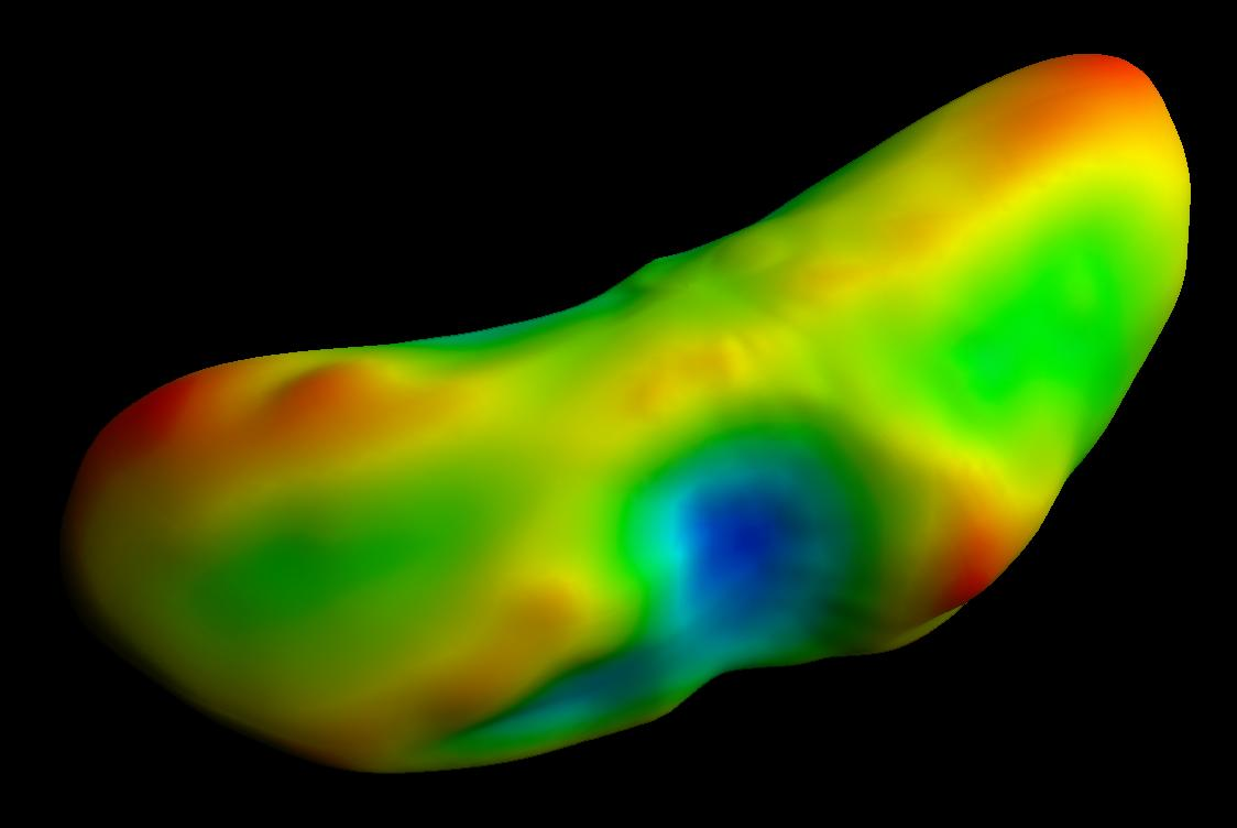 From original description: Map of "gravitational topography" of asteroid (433) Eros, painted onto a shape model. Data have been obtained through NEAR Shoemaker mission. Red areas are "uphill" and blue areas are "downhill." A ball dropped onto one of the red spots would try to roll across the nearest green area to the nearest blue area.